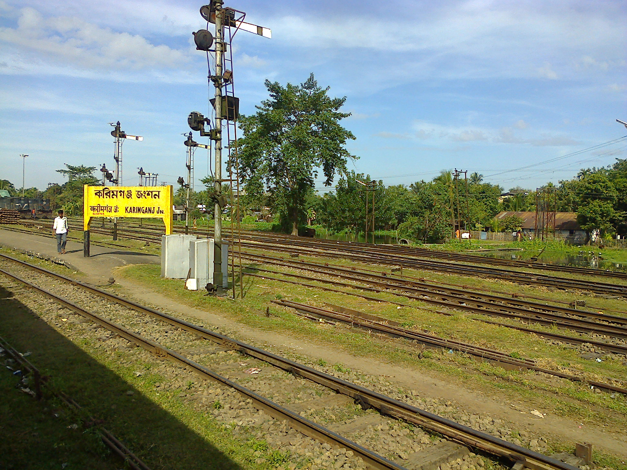 Karimganj Junction Railway Station